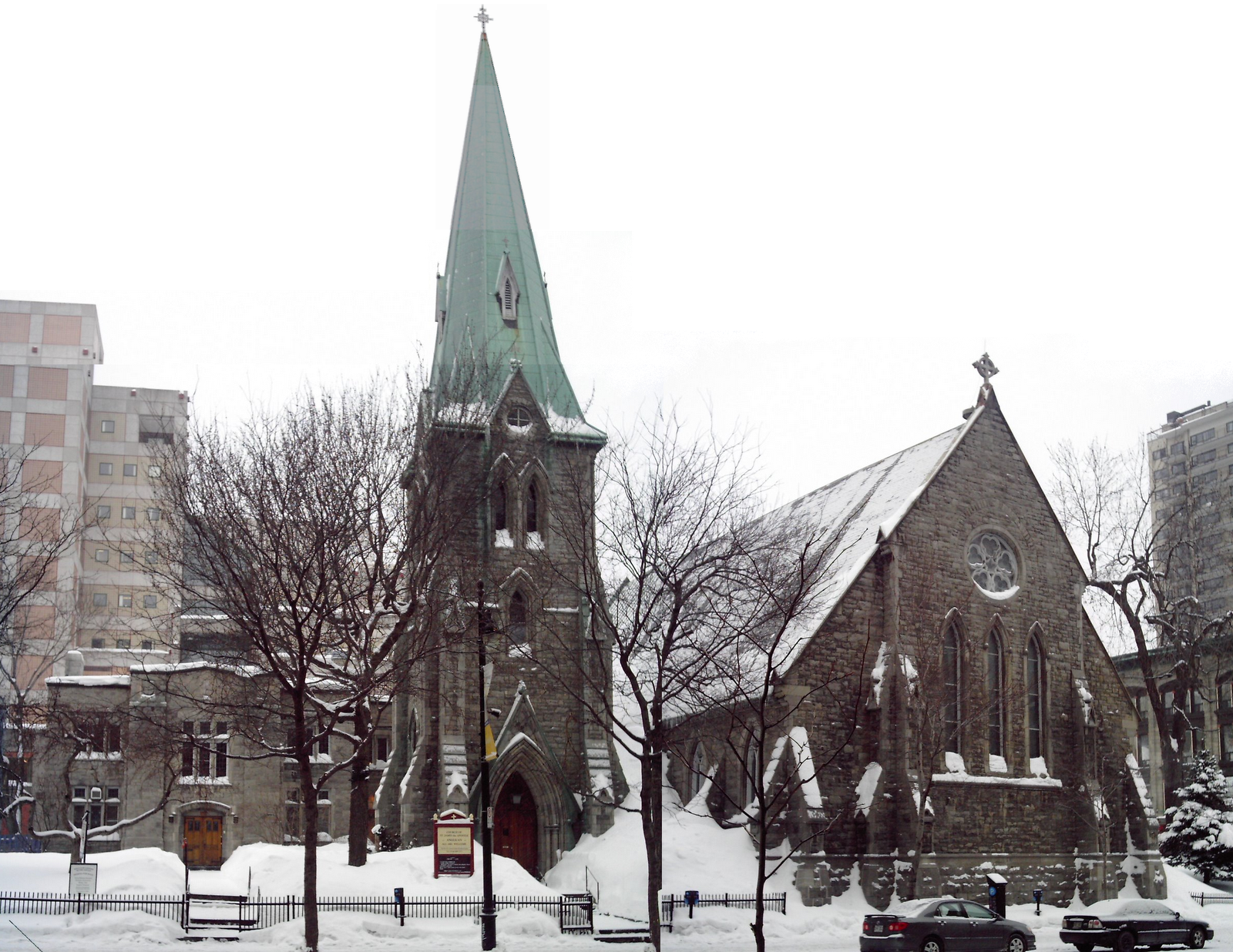 St Jax Montréal on Sainte-Catherine Street near Guy (in Montreal).